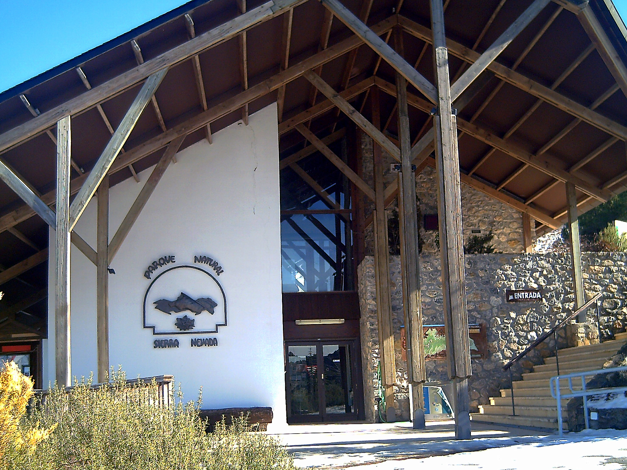 Centro de información "El Dornajo", Sierra Nevada, España